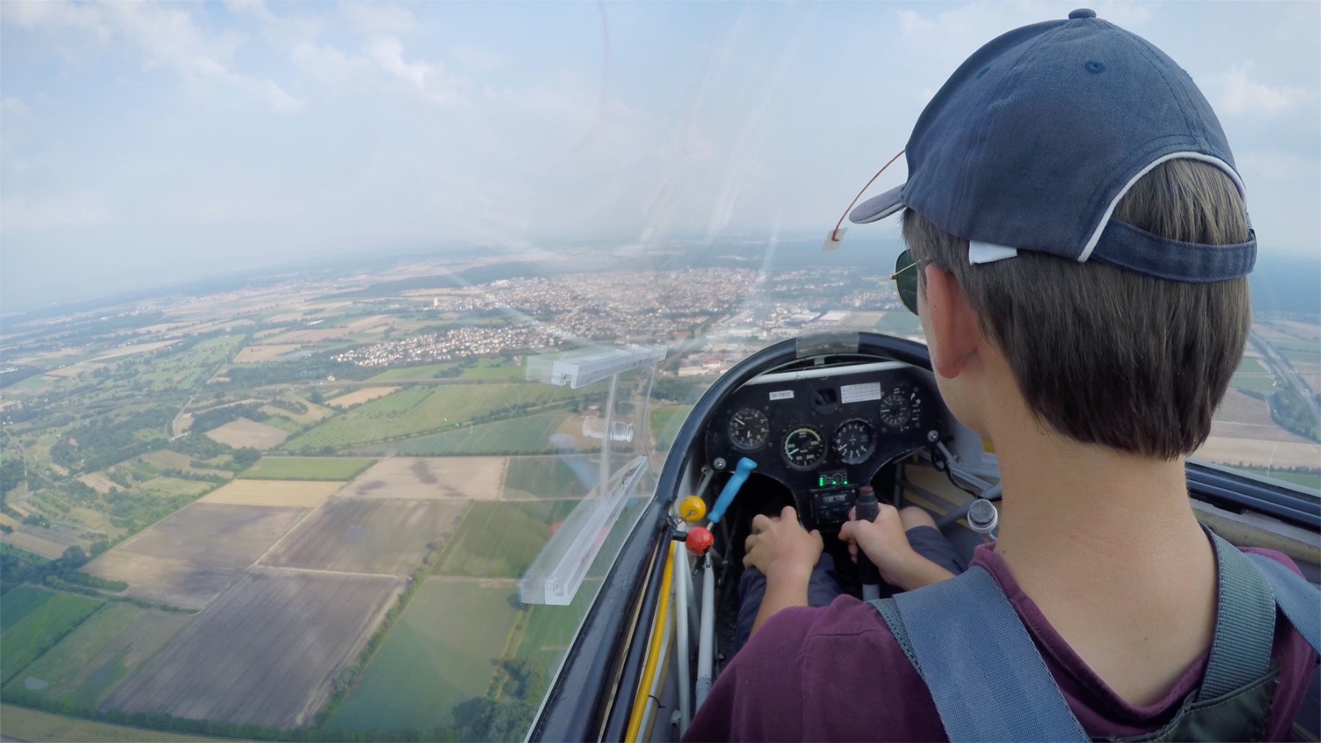 Leon flies alone for the first time.